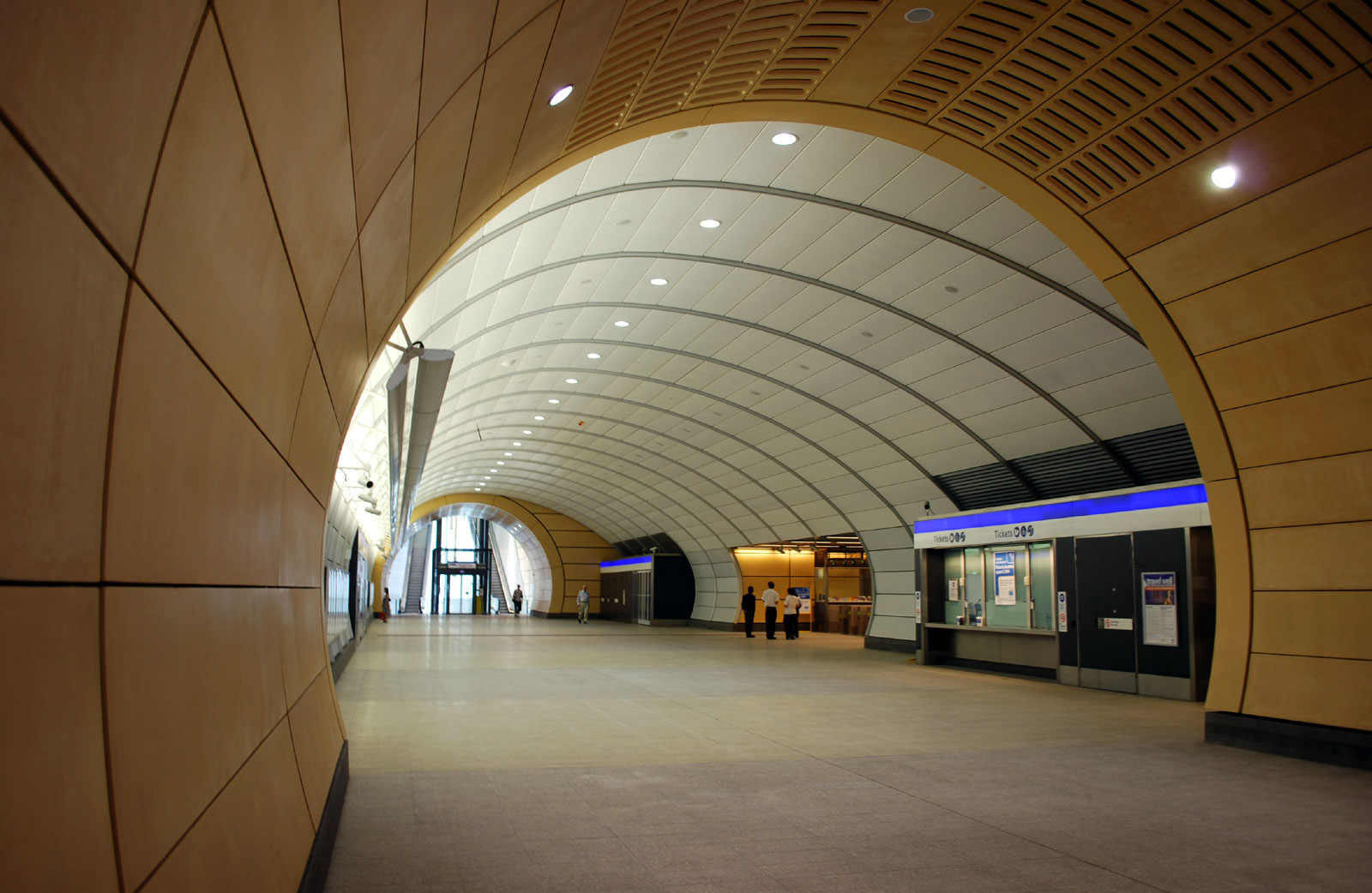 Ticket hall of Macquarie Park Railway Station, on the Epping to Chatswood Railway Line opened on 23 February 2009